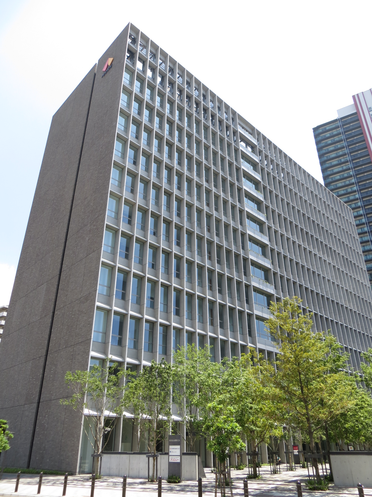 Headquarter of Nankai Electric Railway, Naniwa-ku, Osaka.